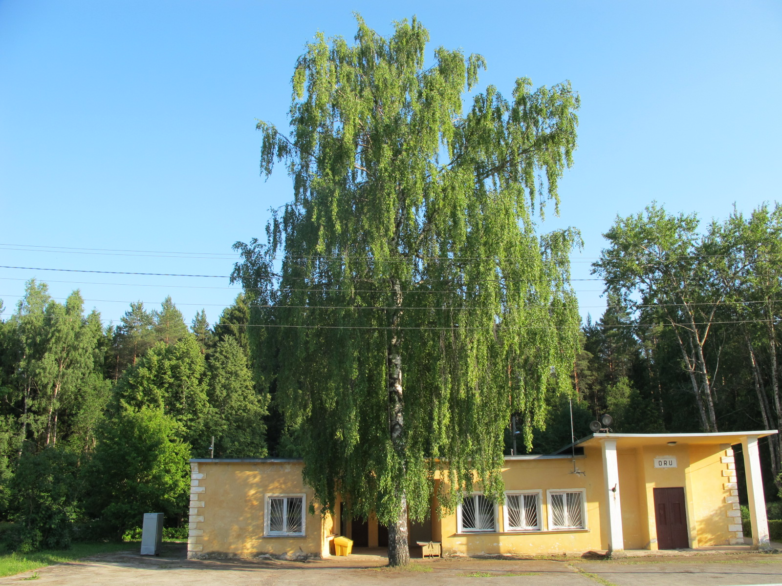 Train station in Oru, Estonia (district of Kohtla-Järve)